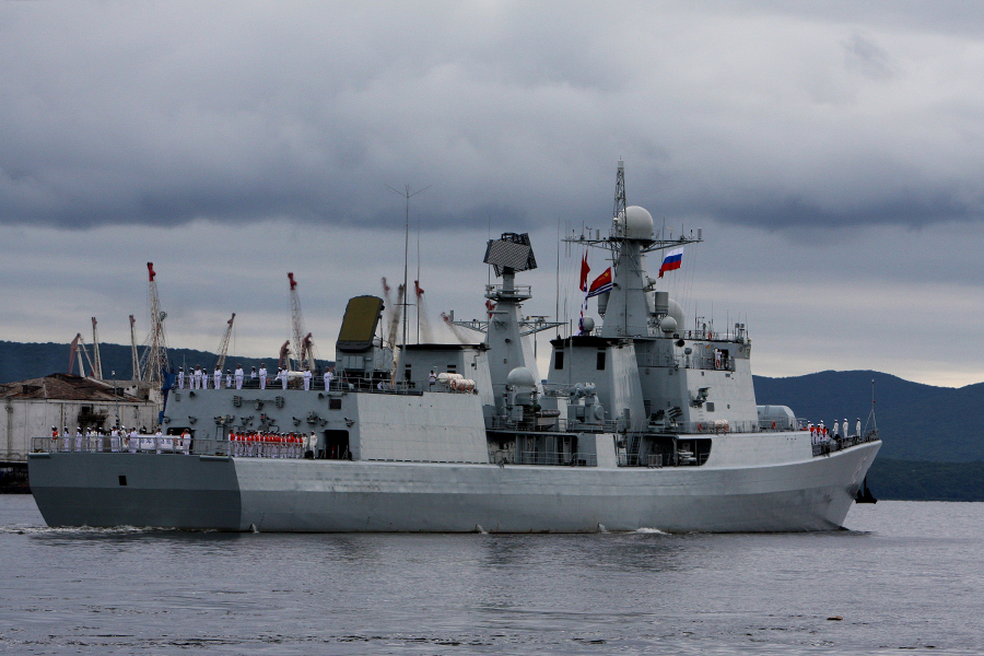 Festive ceremony devoted to the departure of Russian and Chinese ships to the area of the Naval Interaction-2015 exercise